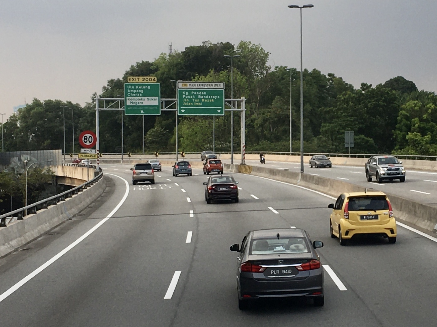 Bukit Jalil Interchange of the Maju Expressway, view to the north towards Kuala Lumpur.